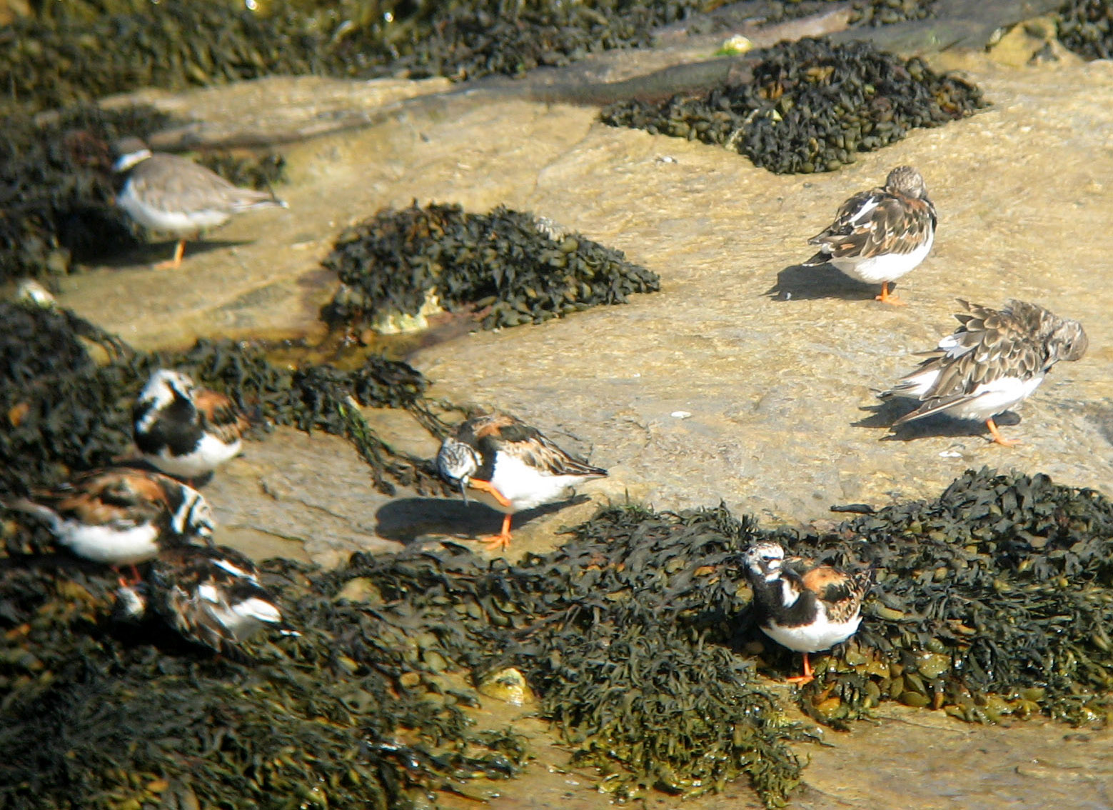 Ruddy Turnstone, St Mary's Island, Northumberland, UK, also one Charadrius hiaticula back left